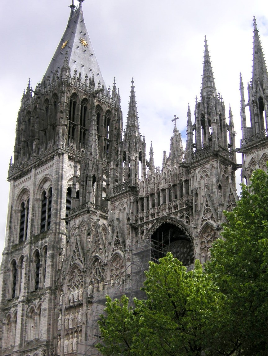 France, Rouen Cathedral, portion of the facade. (The rest was scaffolded)